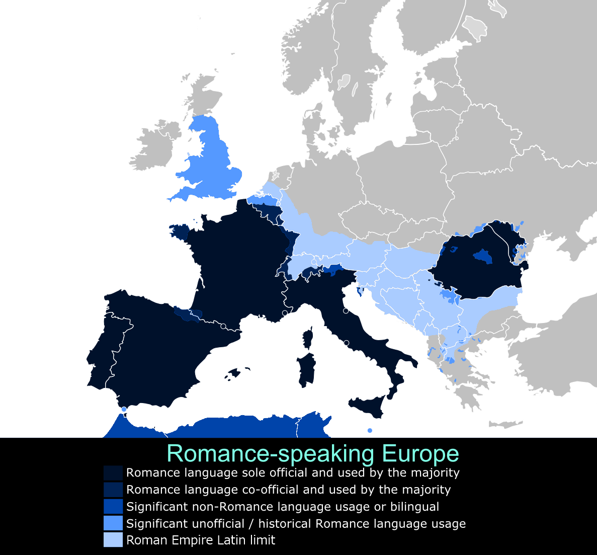 England has had significant historical Romance language usage since 1066 and forward (See: Anglo-norman language for more information). In the 19th century French was the administrative language in Flanders its upperclasses were completely francised and French is still significantly used in the Maghreb countries.